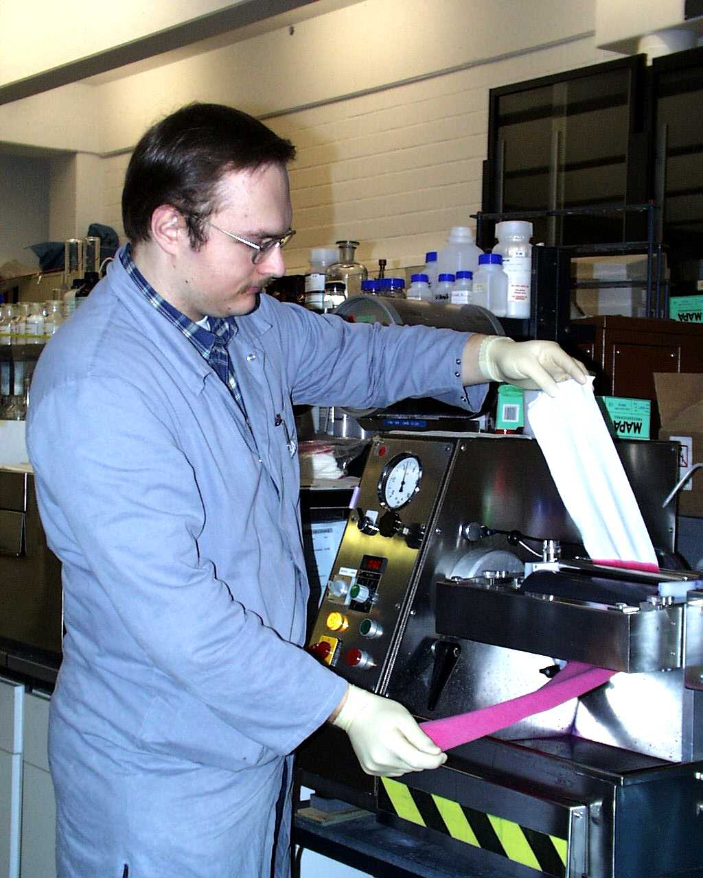 Laborfoulard mit Probe